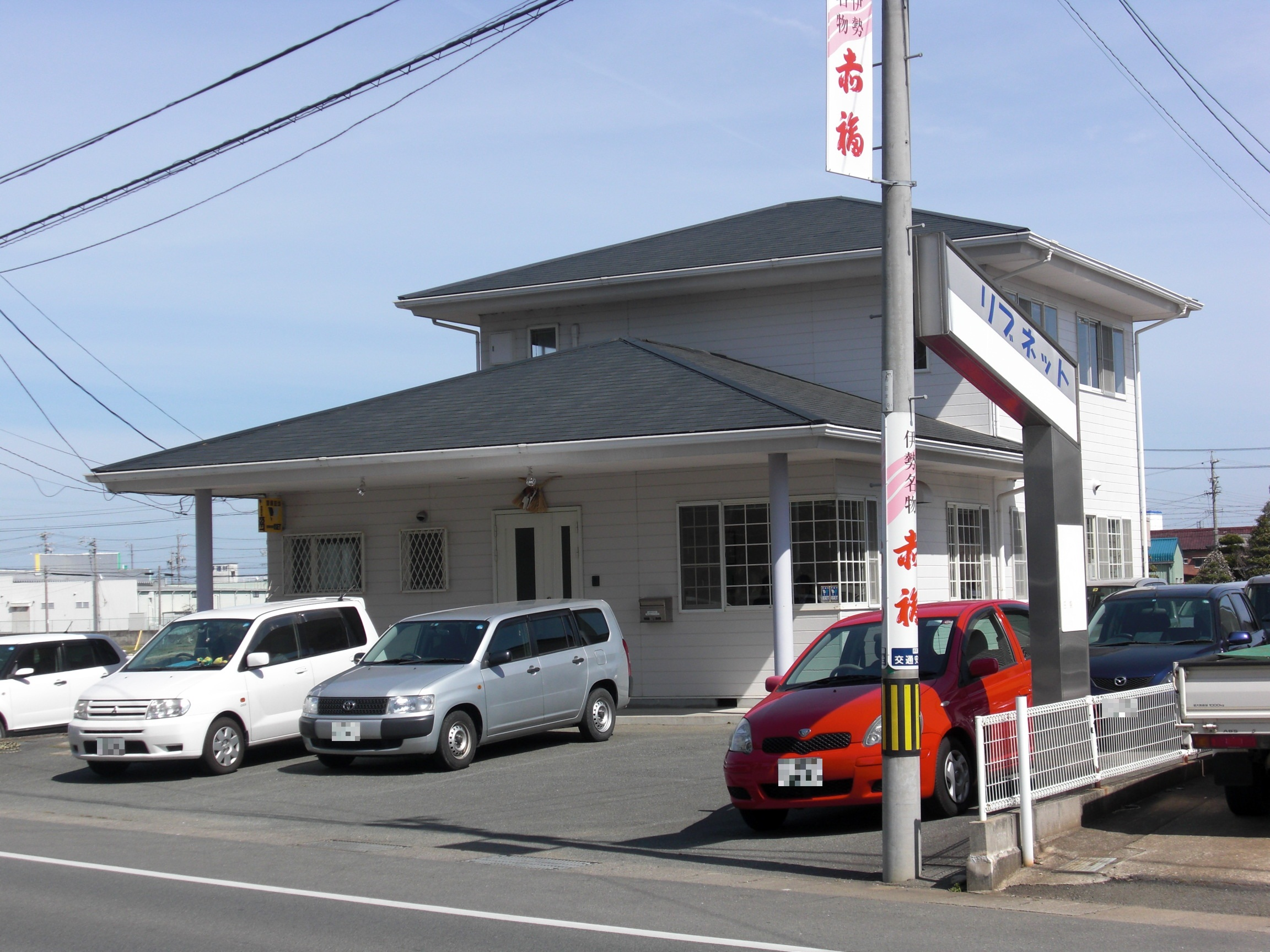 This is a company which deals library services.